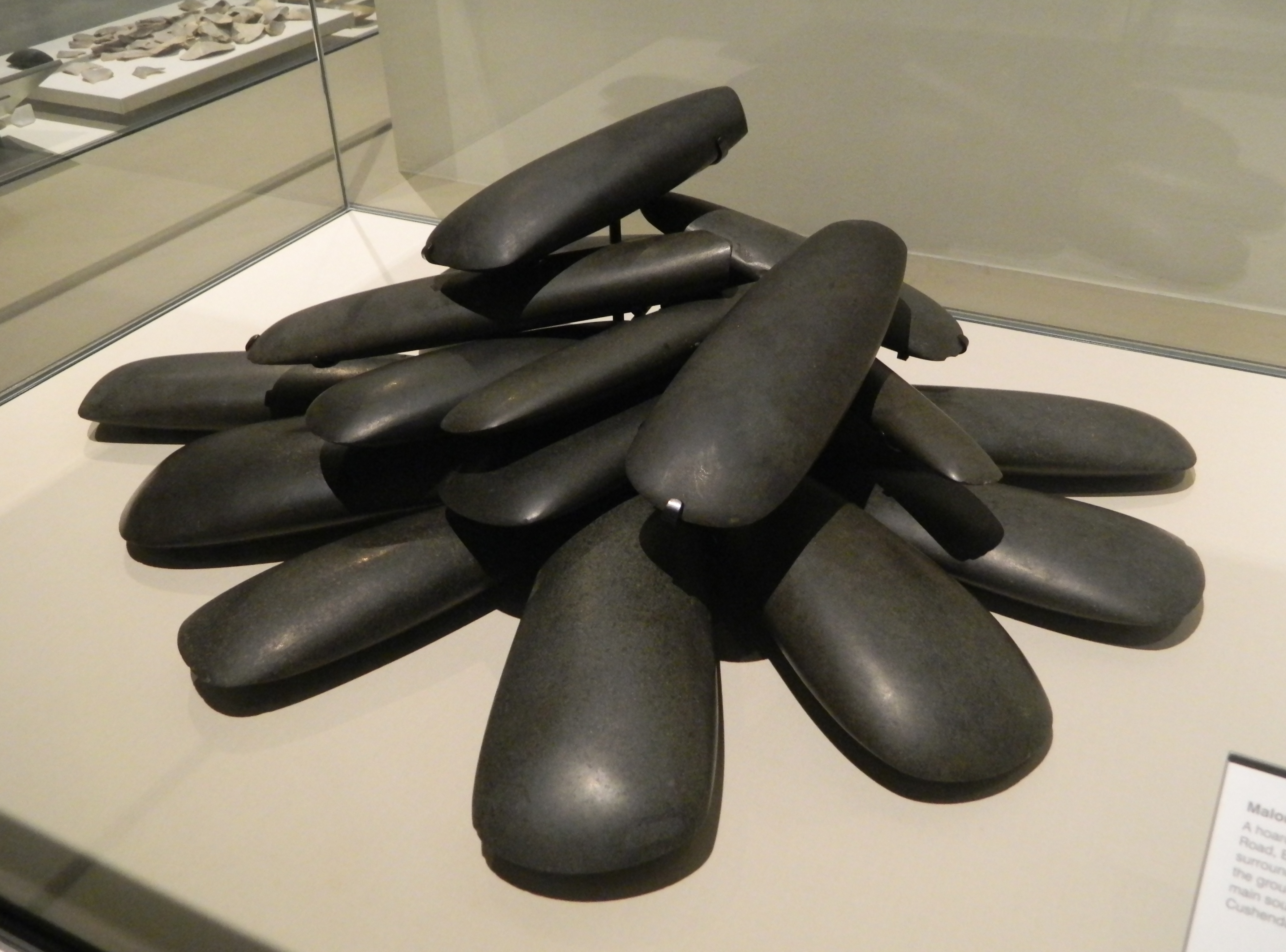 Hoard of stone axes found at Danesfort, Malone Road, Belfast. In the Ulster Museum